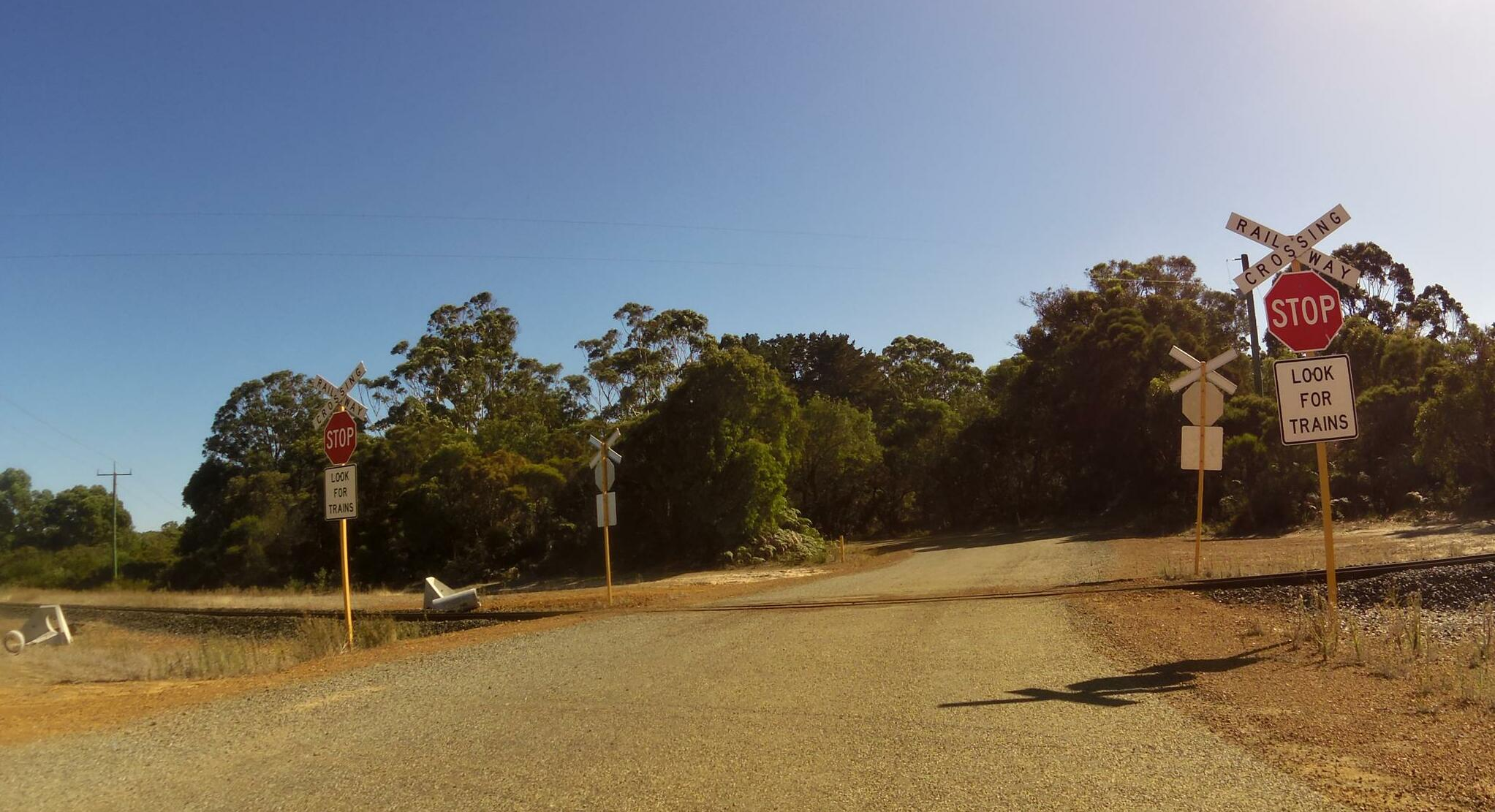 Elleker WA railroad crossing